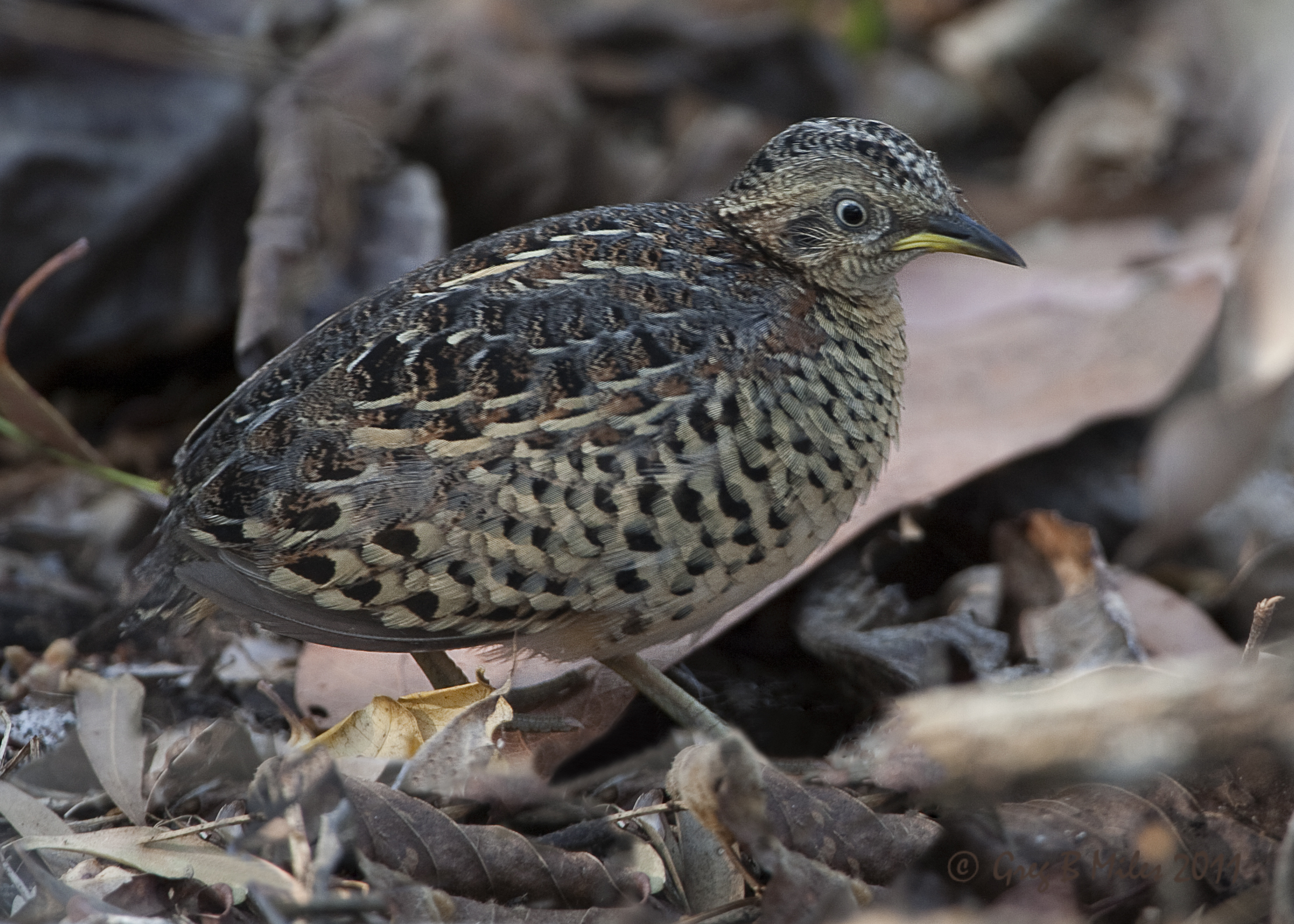 I have made this look like a largish bird with my crop, but I did not have a choice with all the distracting foliage around it. It is in fact a very small bird hence the name "Button". They measure between 12-15cm